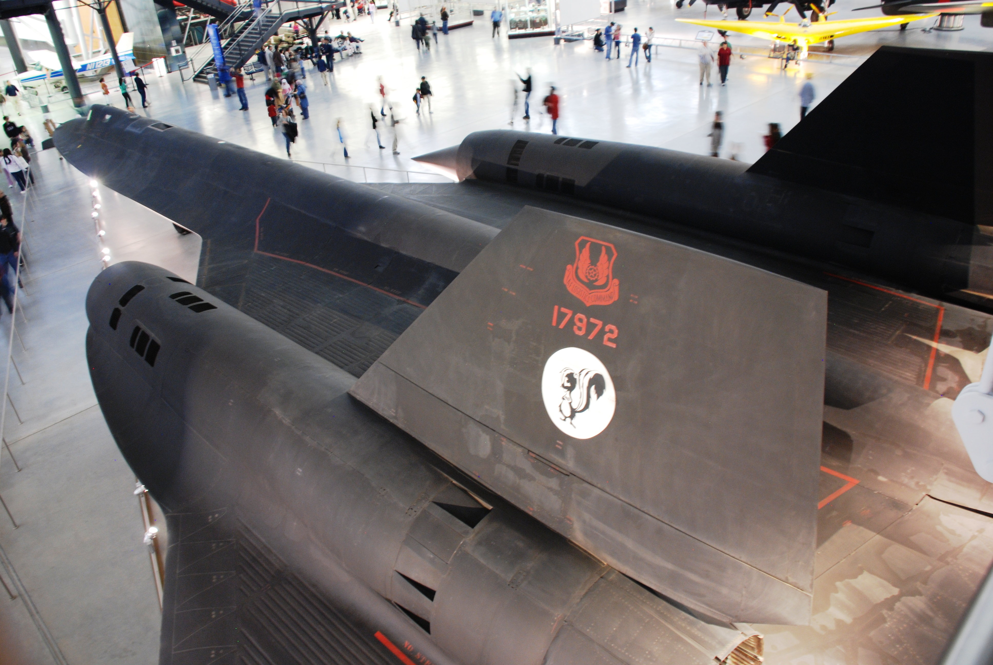 Back of SR-71 on display at The National Air and Space Museum Steven F. Udvar-Hazy Center